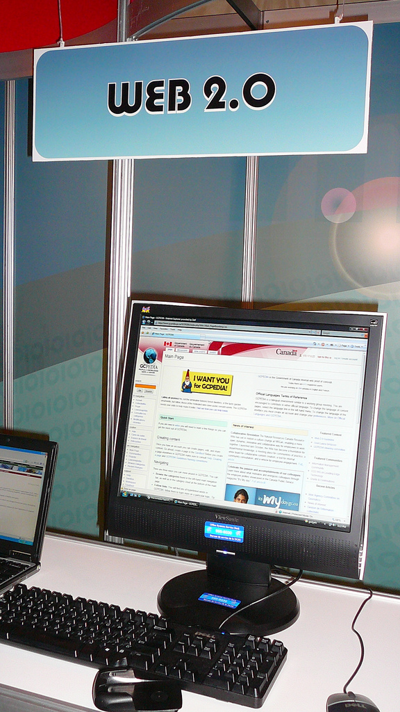 The GCpedia presentation at GTEC 2008